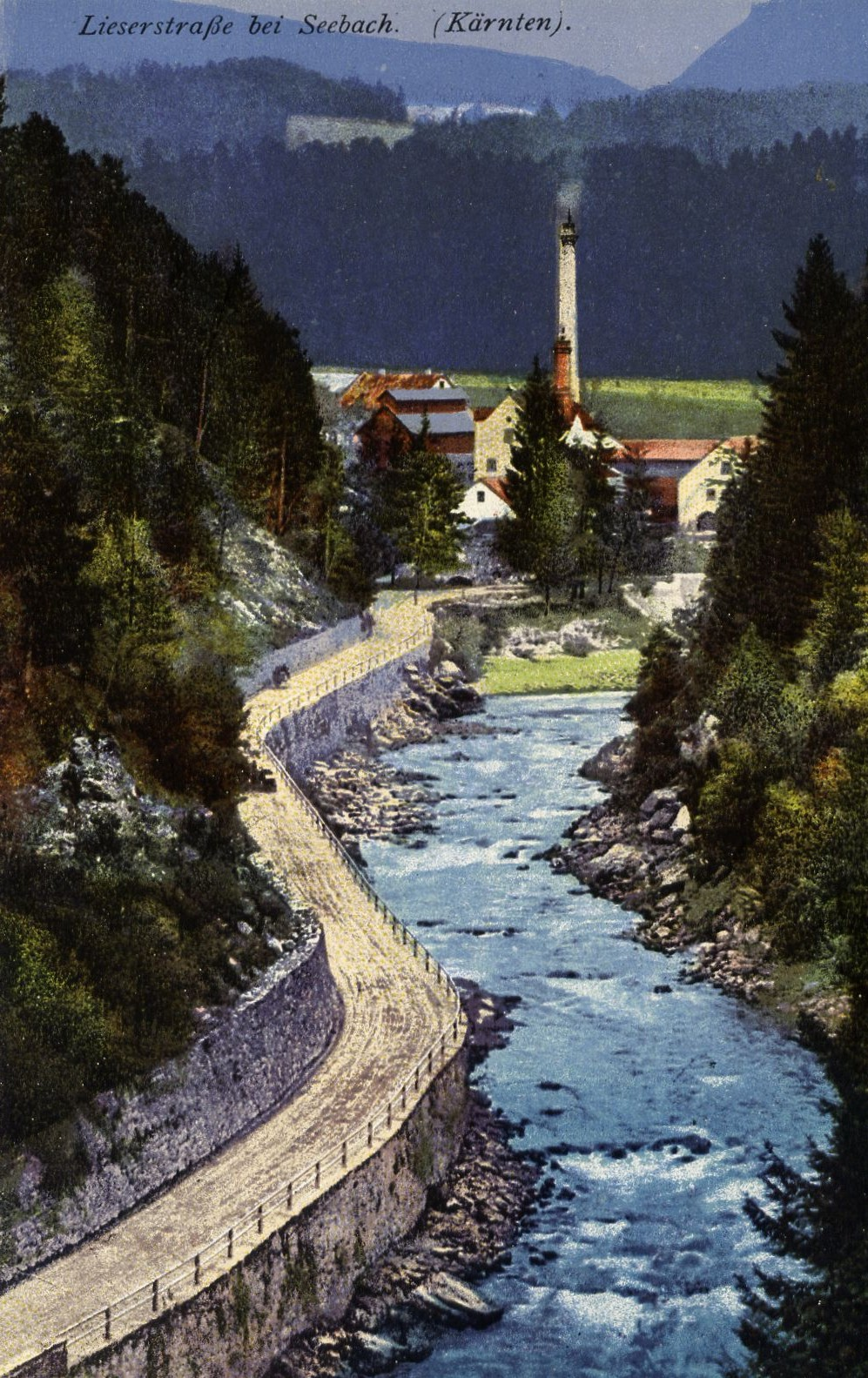 Lieser, a river near Seeboden / Carinthia / Austria / Europe.